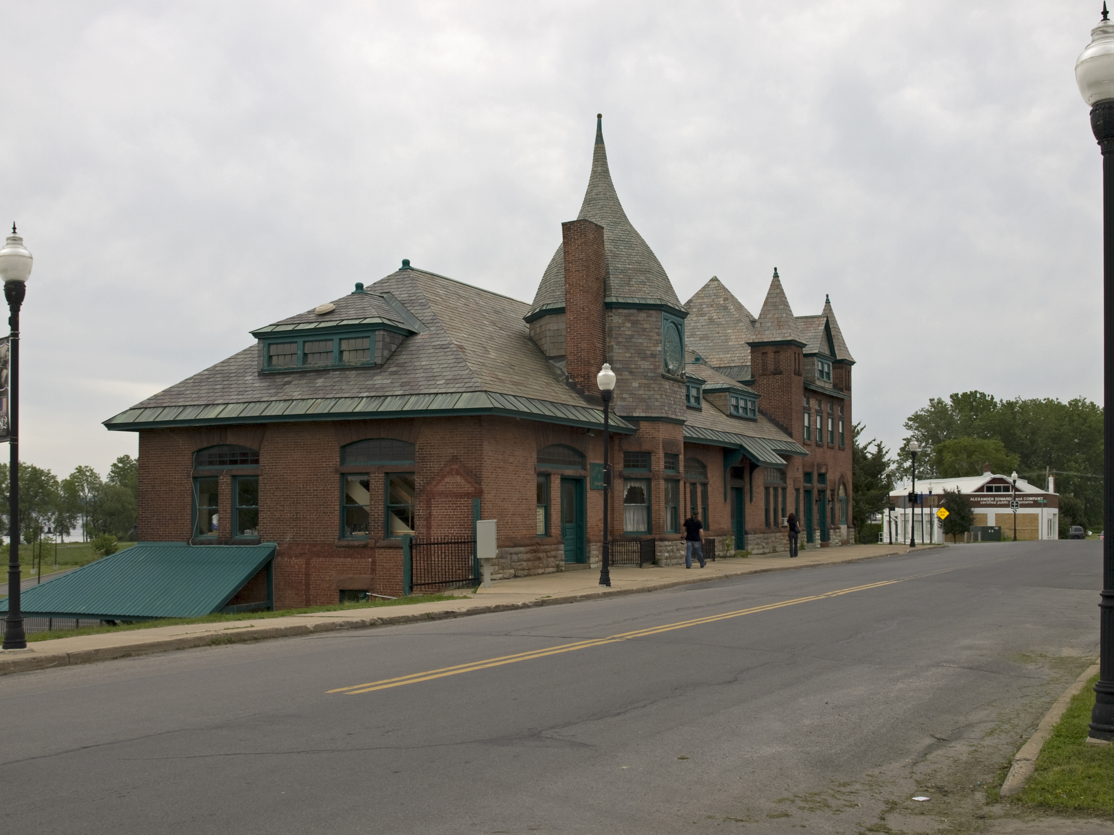 Plattsburgh railway station, Plattsburgh, NY